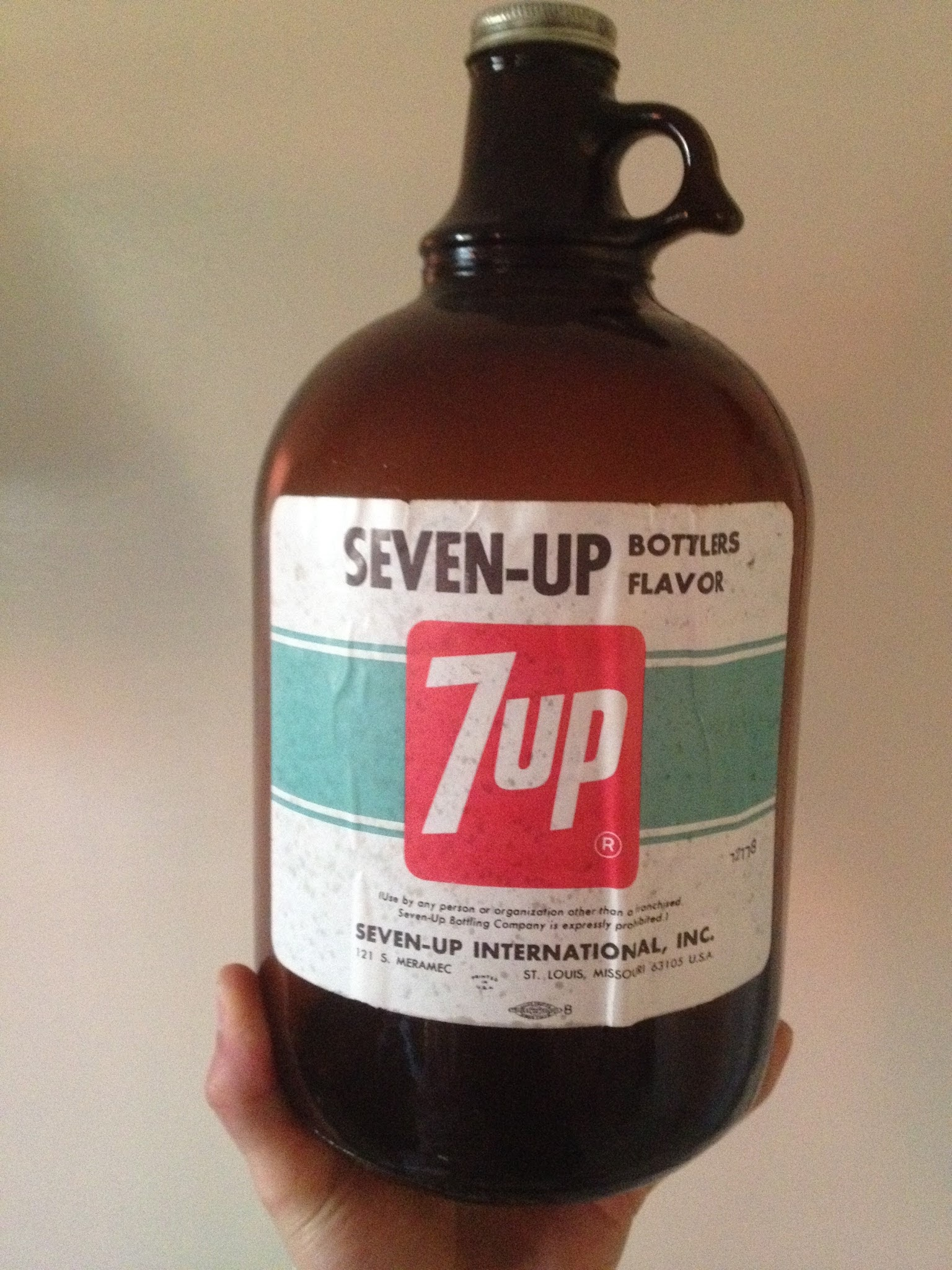 A jug of bottler's flavor for 7-Up. The syrup-like concentrate lacks sugar and is sold to franchisees to refill. Note the union bug at the lower-middle portion of the label.